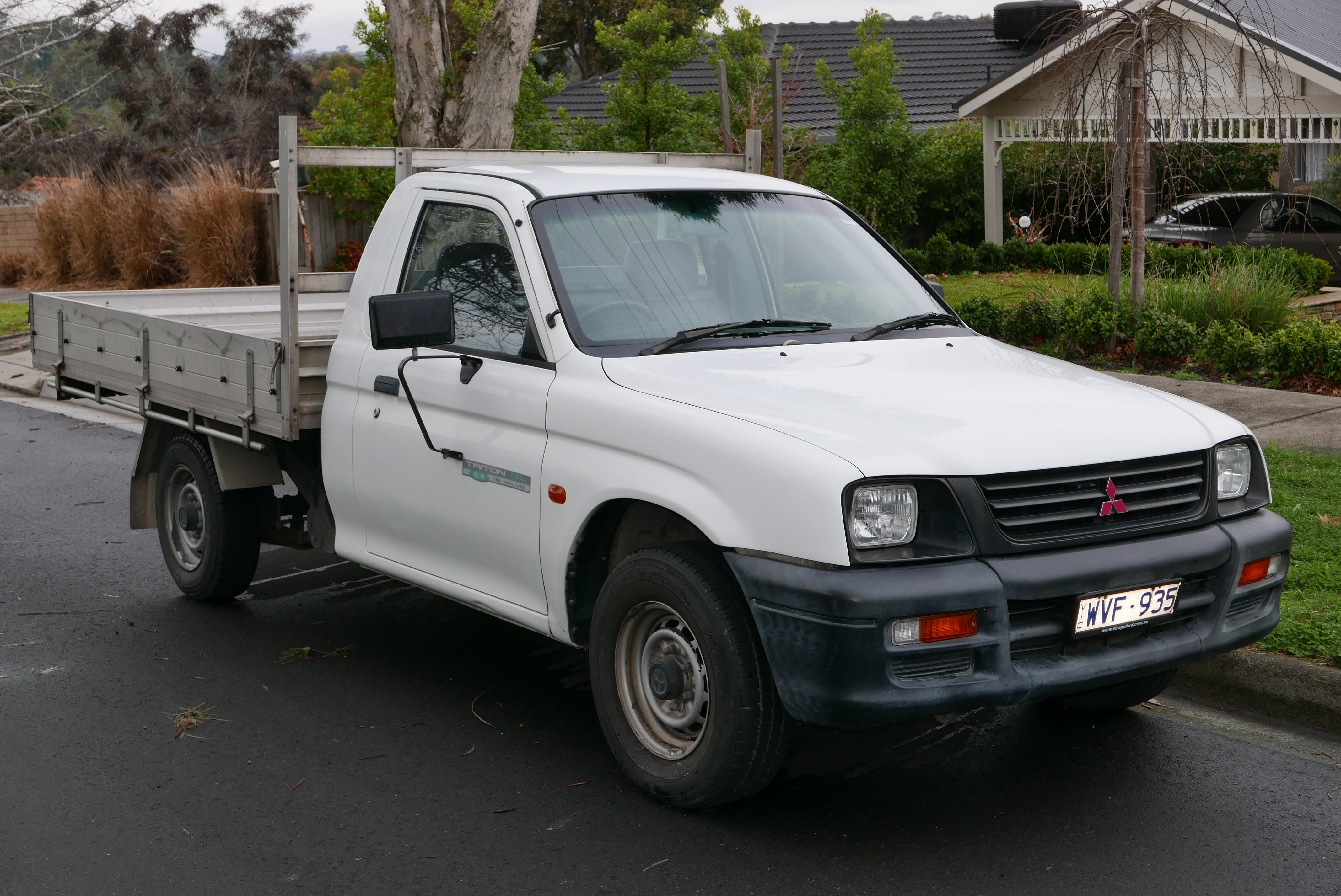 1998 Mitsubishi Triton (MK) GL 2-door cab chassis. Photographed in Doncaster East, Victoria, Australia. Vehicle registration enquiry results Jurisdiction Victoria Registration WVF935 Chassis code MMBYNK650WD061987 Engine code 4G64AA5531 Compliance date 1998-10 Year of manufacture 1998